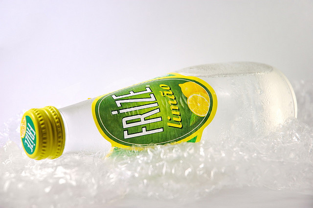 Frize, one of the brands by the Portuguese food and drinks manufacturer Sumol + Compal